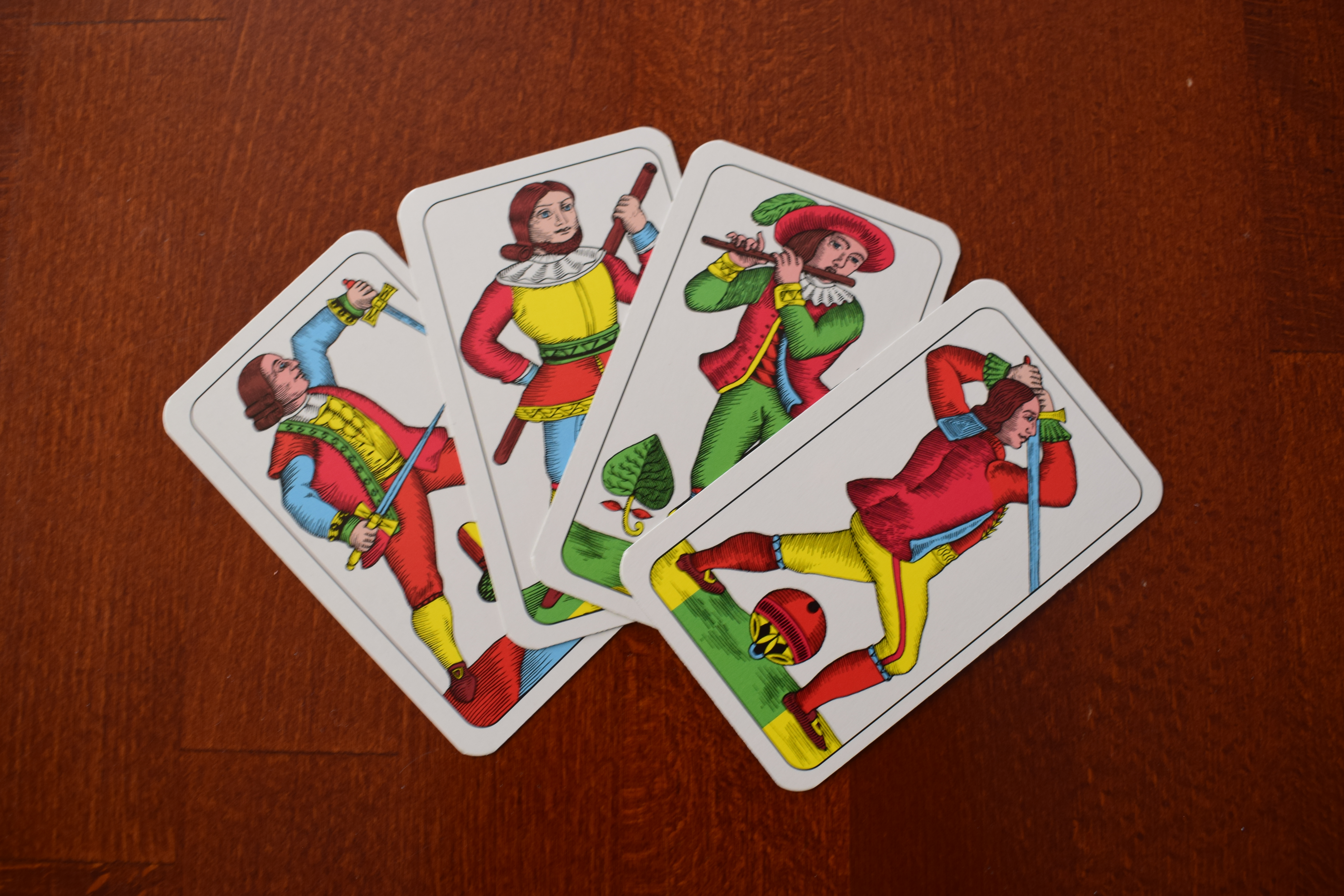 The four Unters in a Bohemian pack